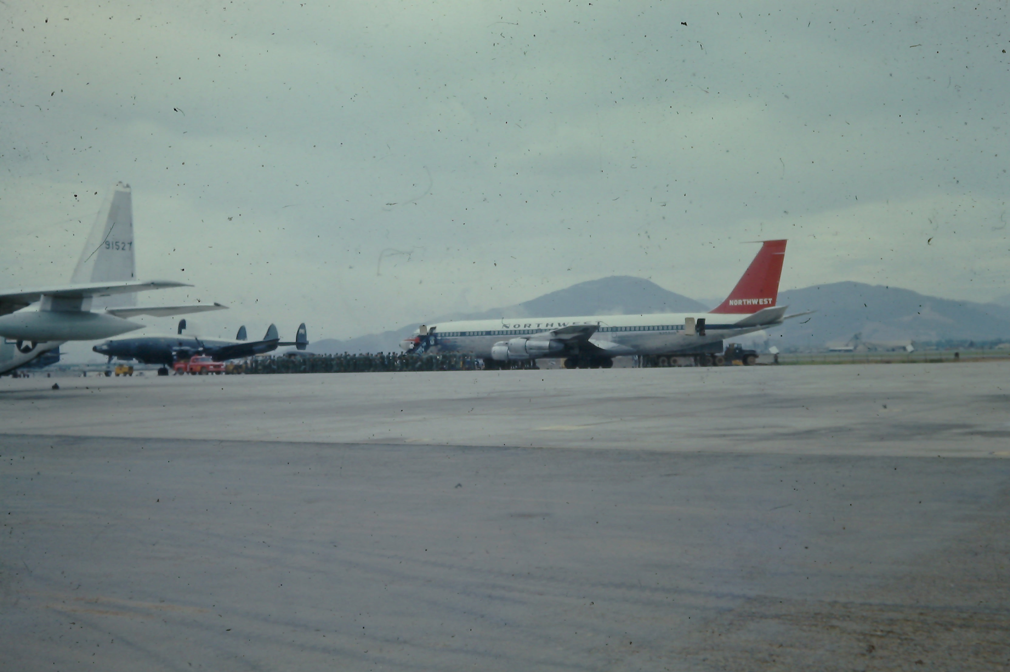 "Northwest Air lines flying Sgt Carlson to Okinawa for process back to the USA." From the Gary Carlson Collection (RF2014-46) at the Marine Corps Archives and Special Collections OFFICIAL USMC PHOTOGRAPH